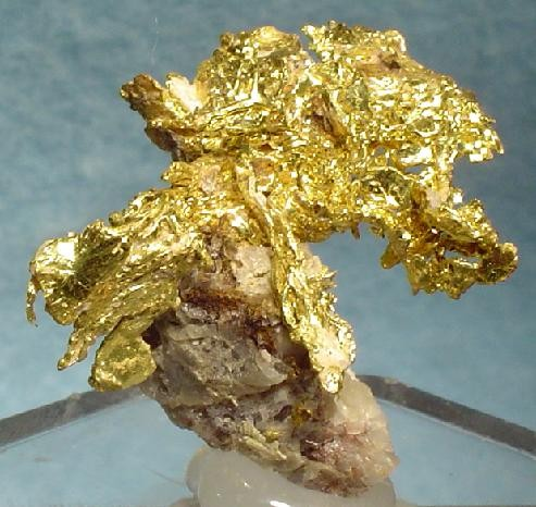 Gold Locality: Eagle's Nest Mine (Mystery Wind Mine), Placer County, California, USA (Locality at ) Size: 2.6 x 2.3 x 2.2 cm. An EXQUISITE, 3-DIMENSIONAL gold specimen from the famous Eagles Nest Mine. Beautifully burnished spinel-twins and flattened octahedrons comprise this branching, arborescent gold on quartz matrix "tree trunk." UNLIKE most Eagles Nest golds, which are 2-dimensional, this showy piece has a very desirable 3-dimensional, sculptural quality.